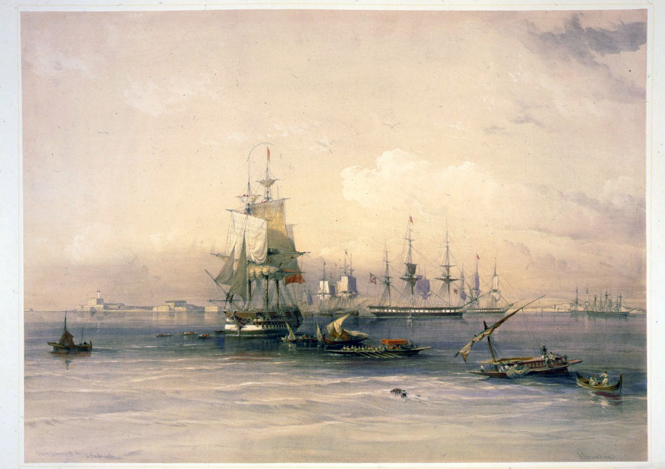 Picture of a print from David Roberts' Egypt & Nubia, issued between 1845 and 1849. Ships at the coast of Alexandria.